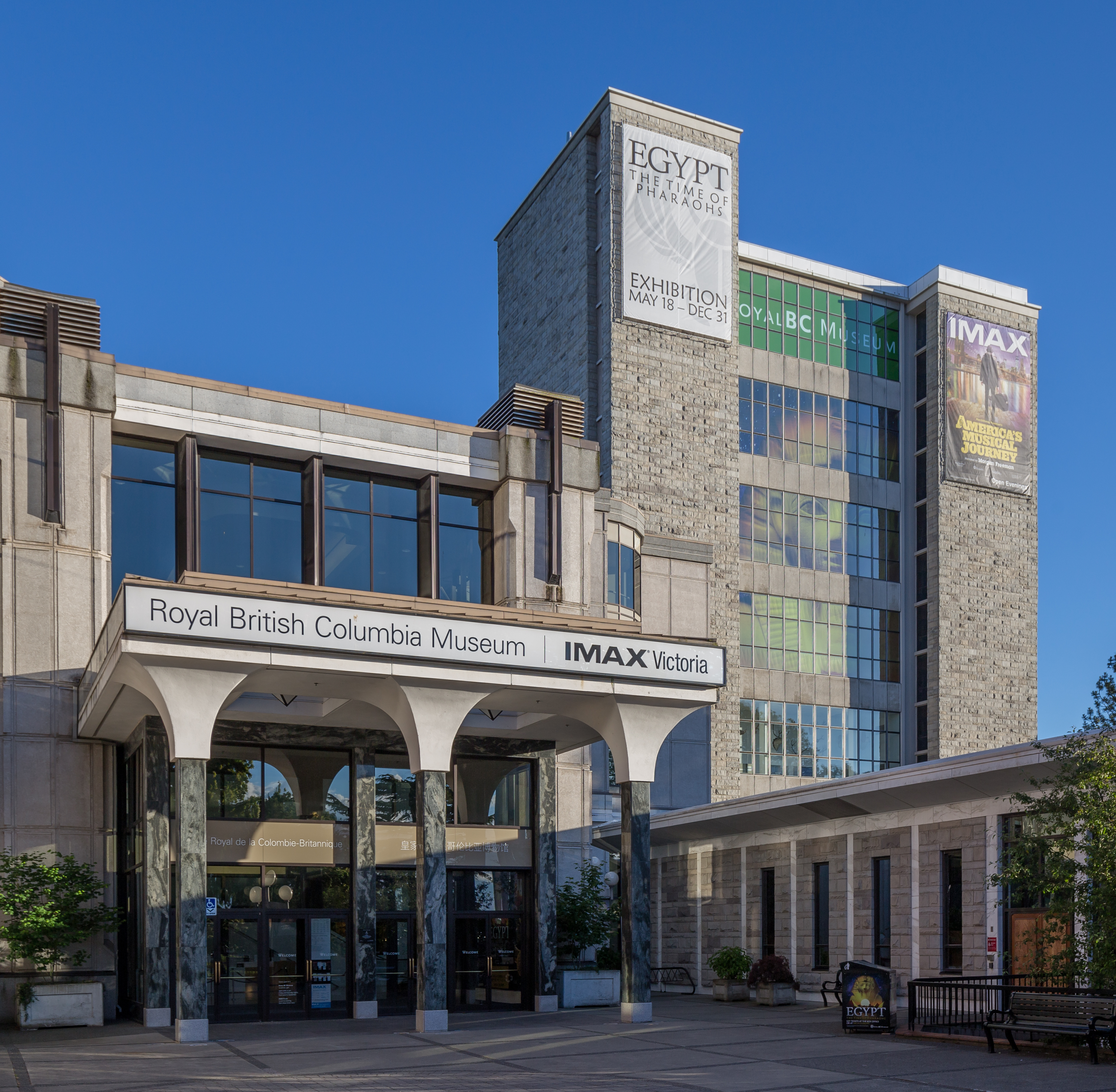 Main entrance to Royal British Columbia Museum, Victoria, British Columbia